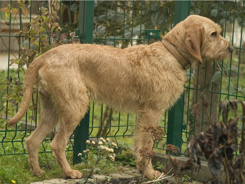 This is a french dog Griffon Fauve de Bretagne.